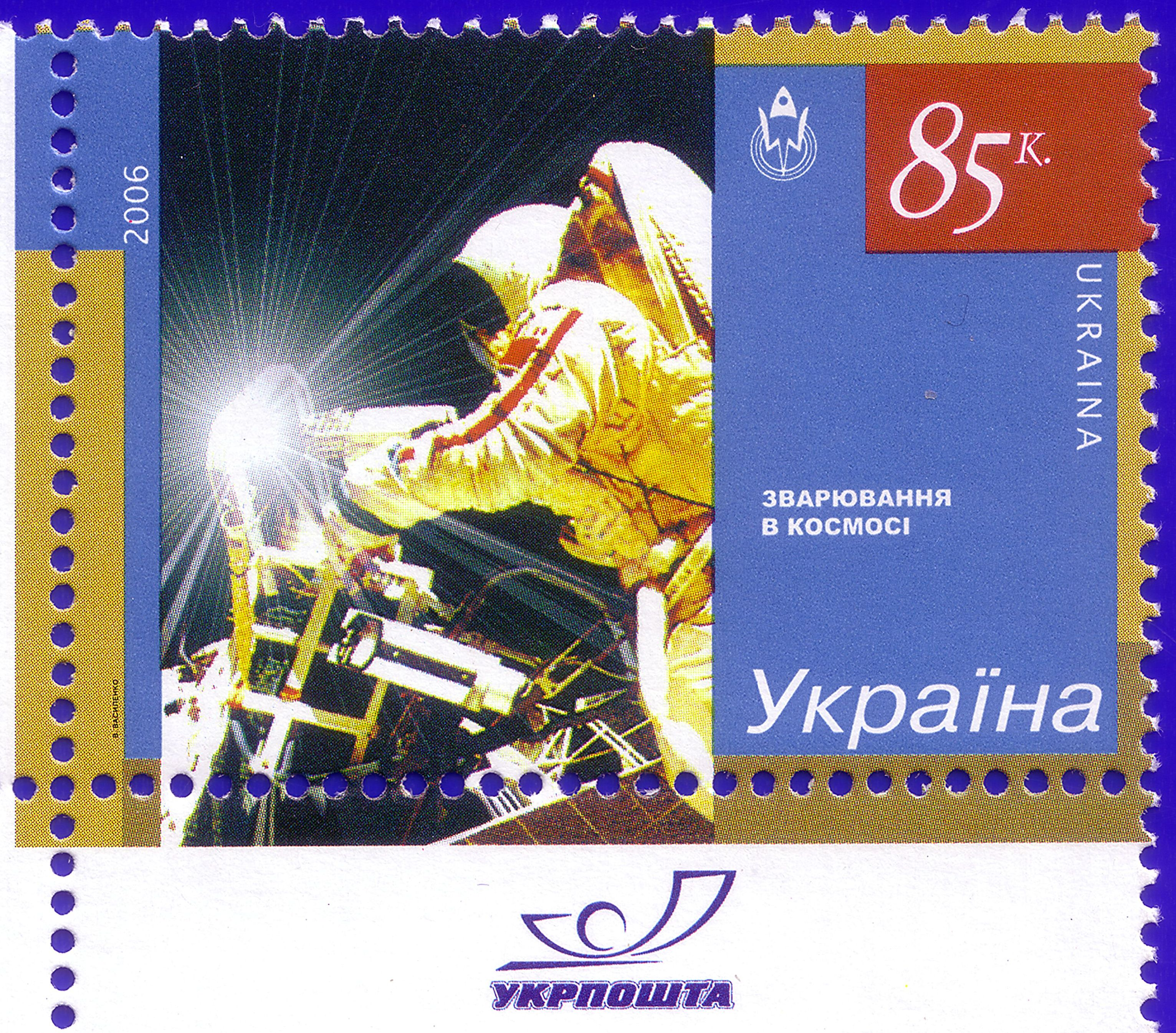 Stamp of Ukraine, 2006. Kosmos. Welding in Space.